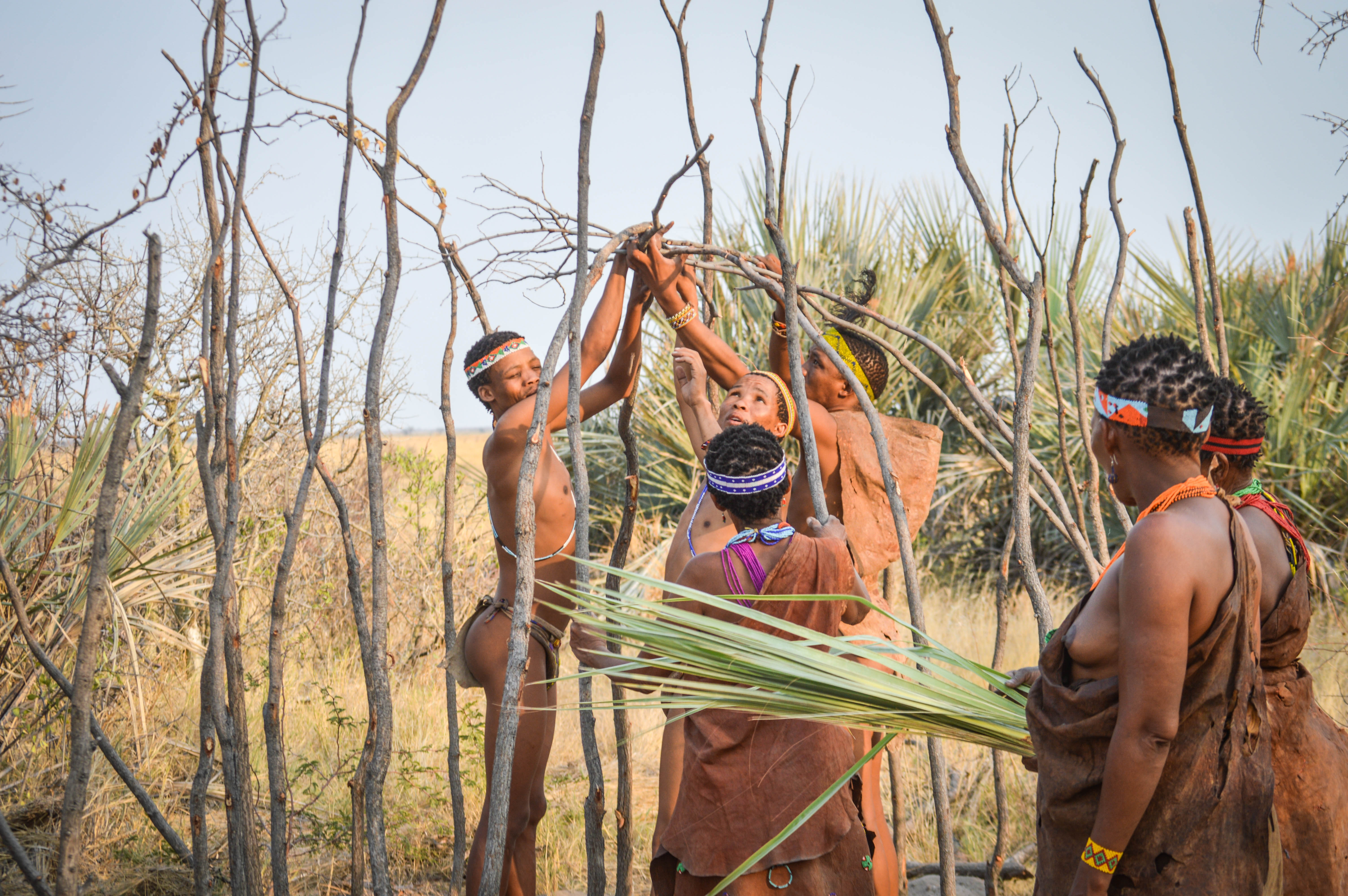 This is an image of "African people at work" from Botswana